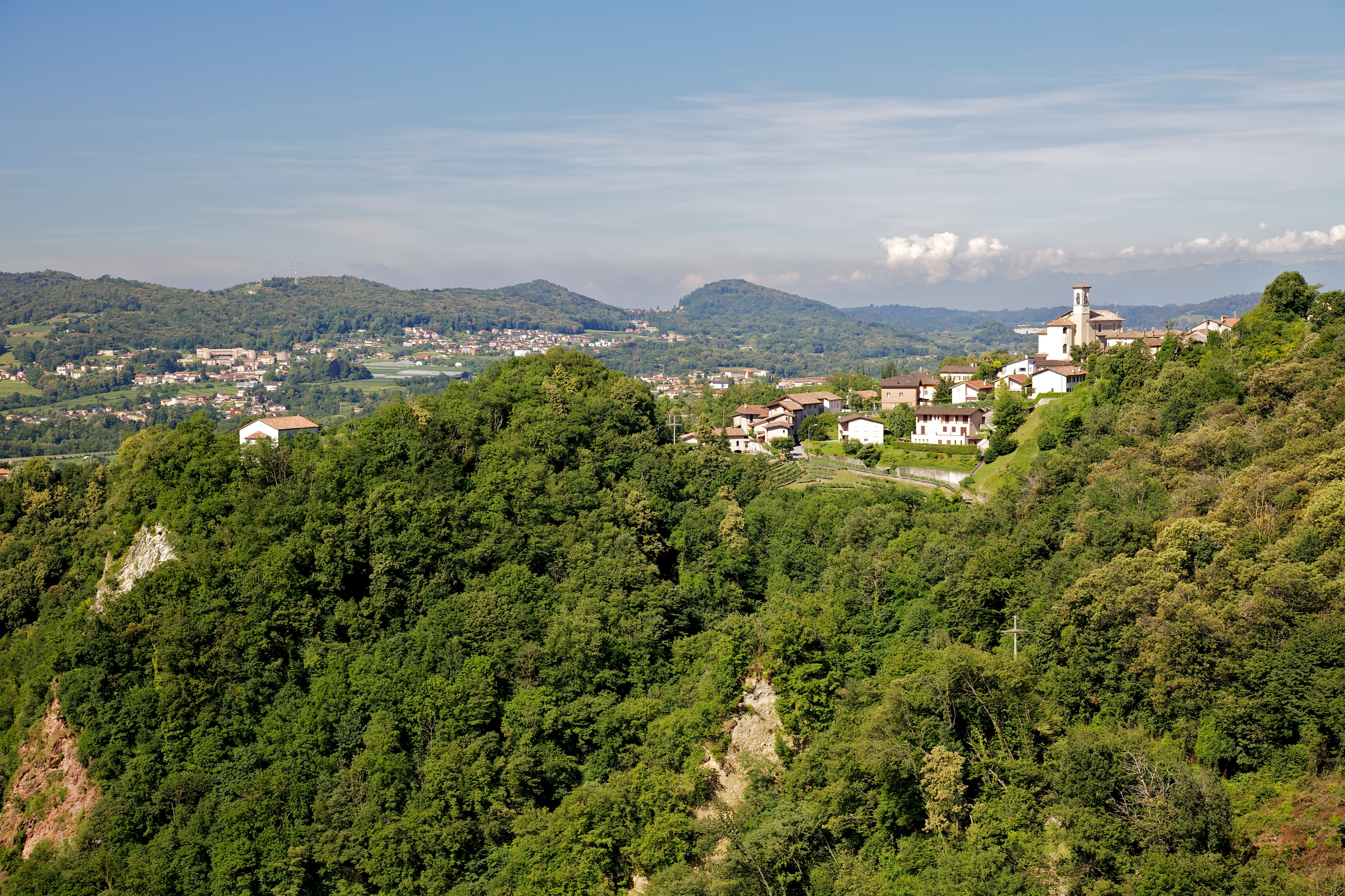 View of Castel San Pietro from Parco delle Golle della Breggia. The cliff you see is the canyon the makes this park.